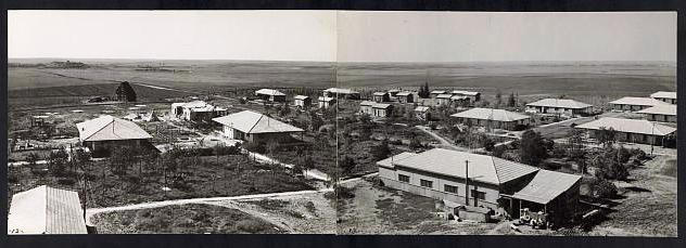 Photo of a the temporary settlement of a Kibbutz Gat in front the Palestinian village of Iraq al-Manshiyya